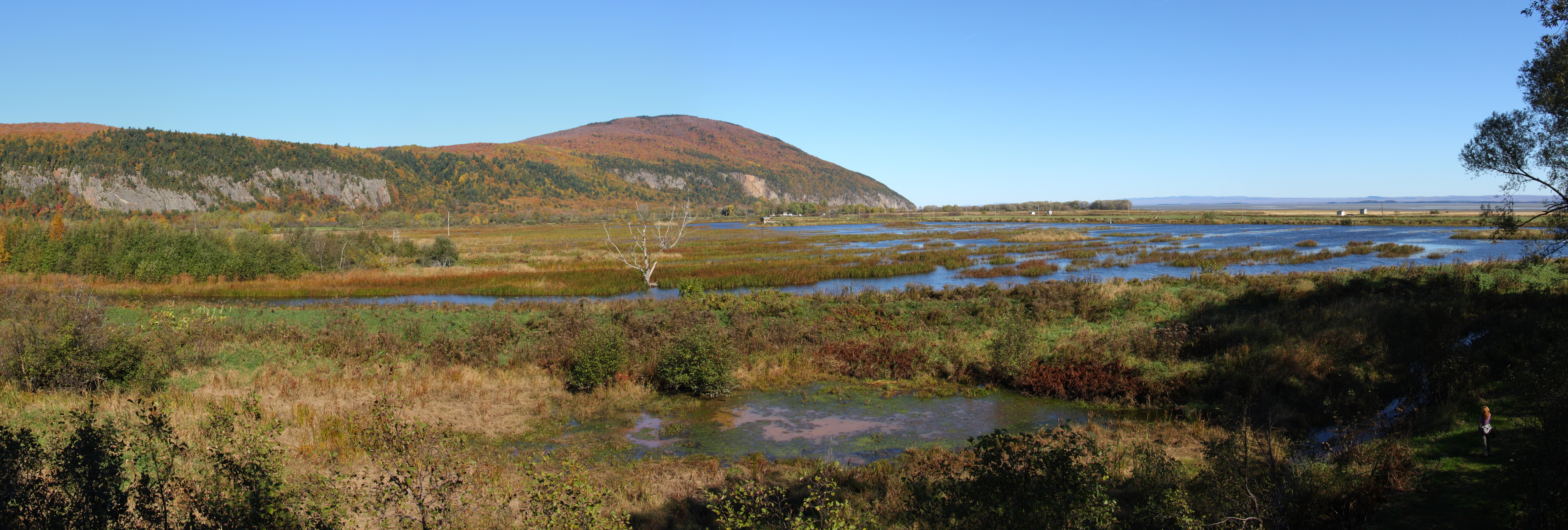 Petite-Ferme marsh from the tower of Petit-Sault trail, Cap Tourmente National Wildlife Area, Quebec, Canada